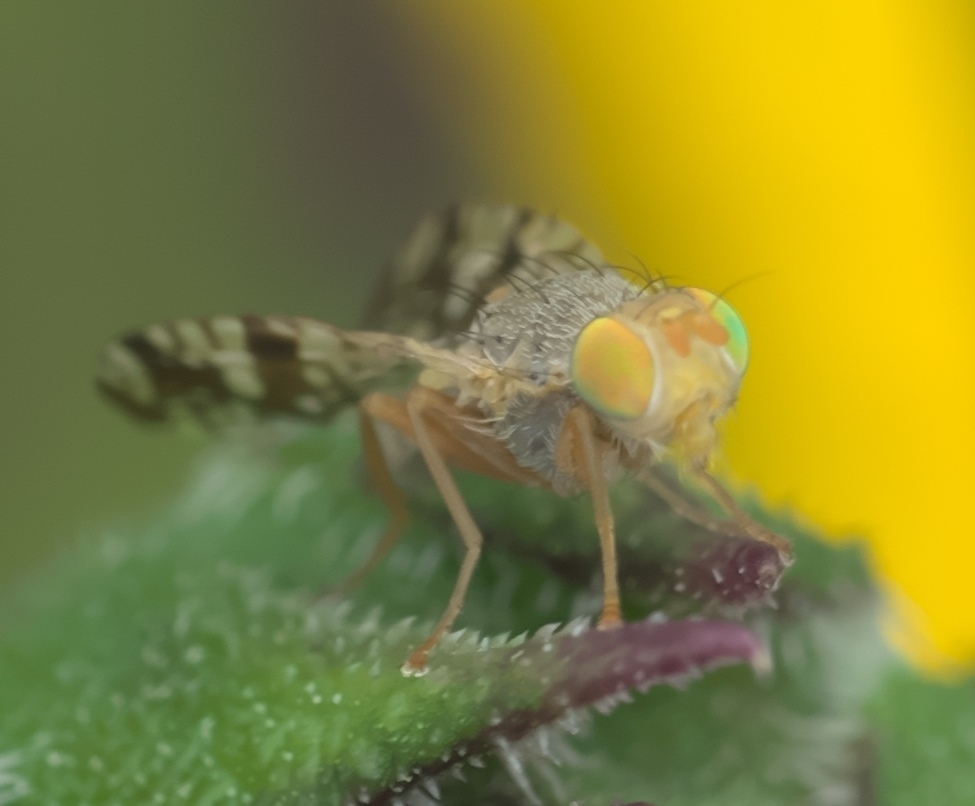 Neotephritis finalis, Sunflower Seed Maggot, ID Confidence: 88